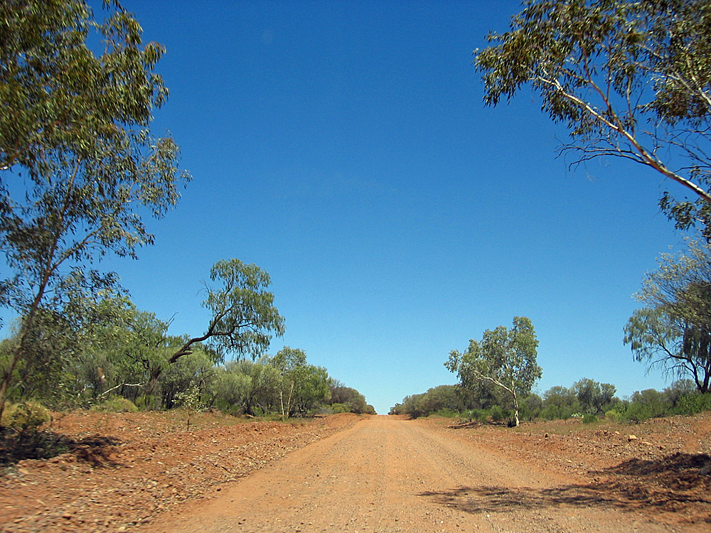 Namatjira Drive in the Northern Territory North of Gosses Bluff